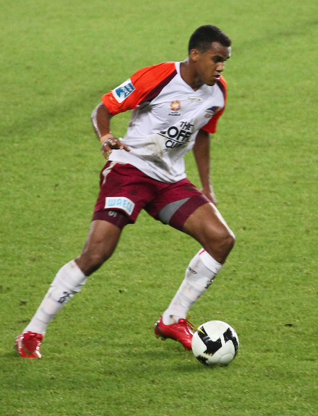 Reinaldo playing for Queensland Roar against Sydney FC in the 08/09 A-League Round 7.